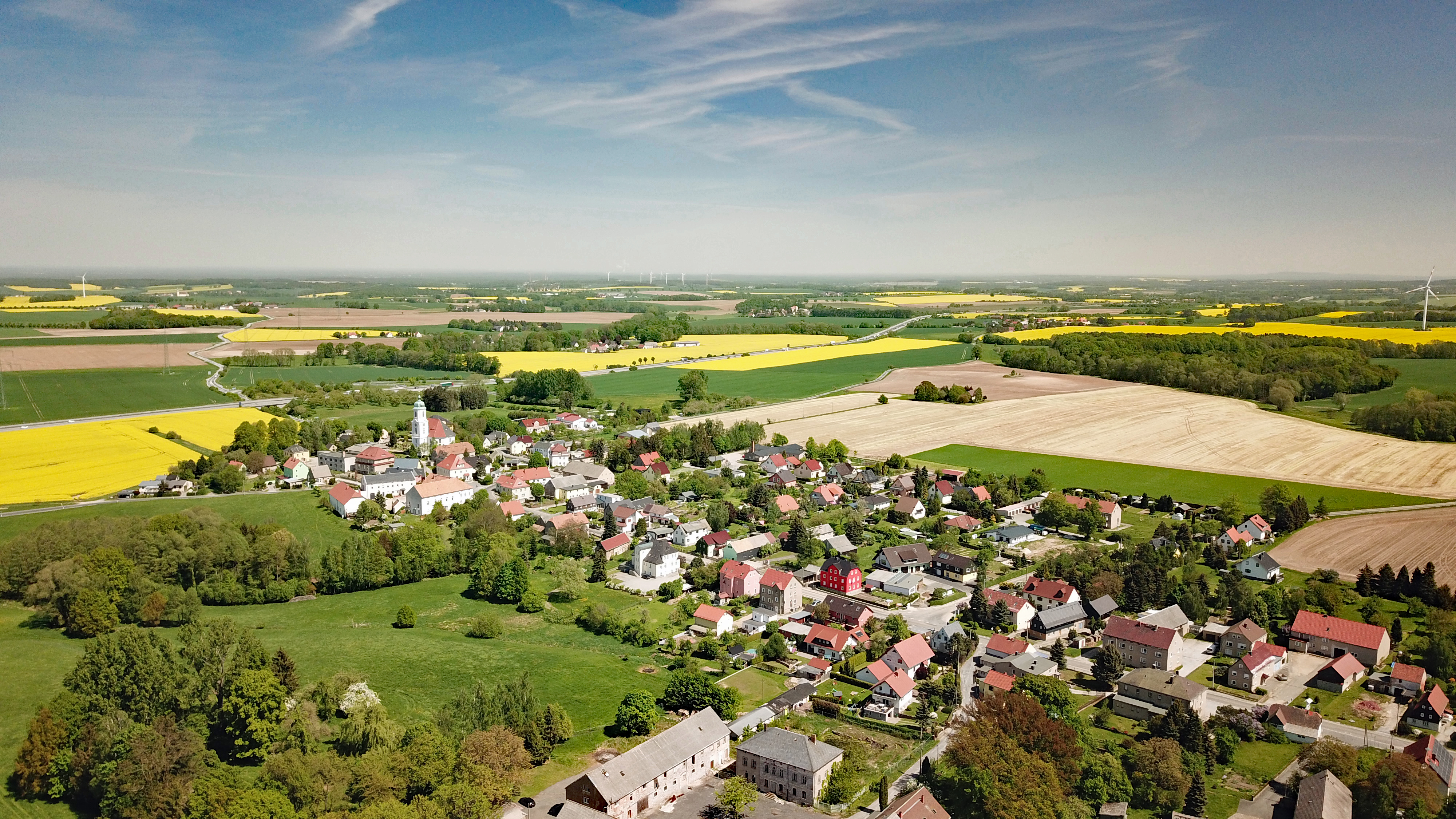 Uhyst am Taucher (Burkau, Saxony, Germany) Hornjoserbsce: Powětrowy wobraz Hornjeho Wujězda